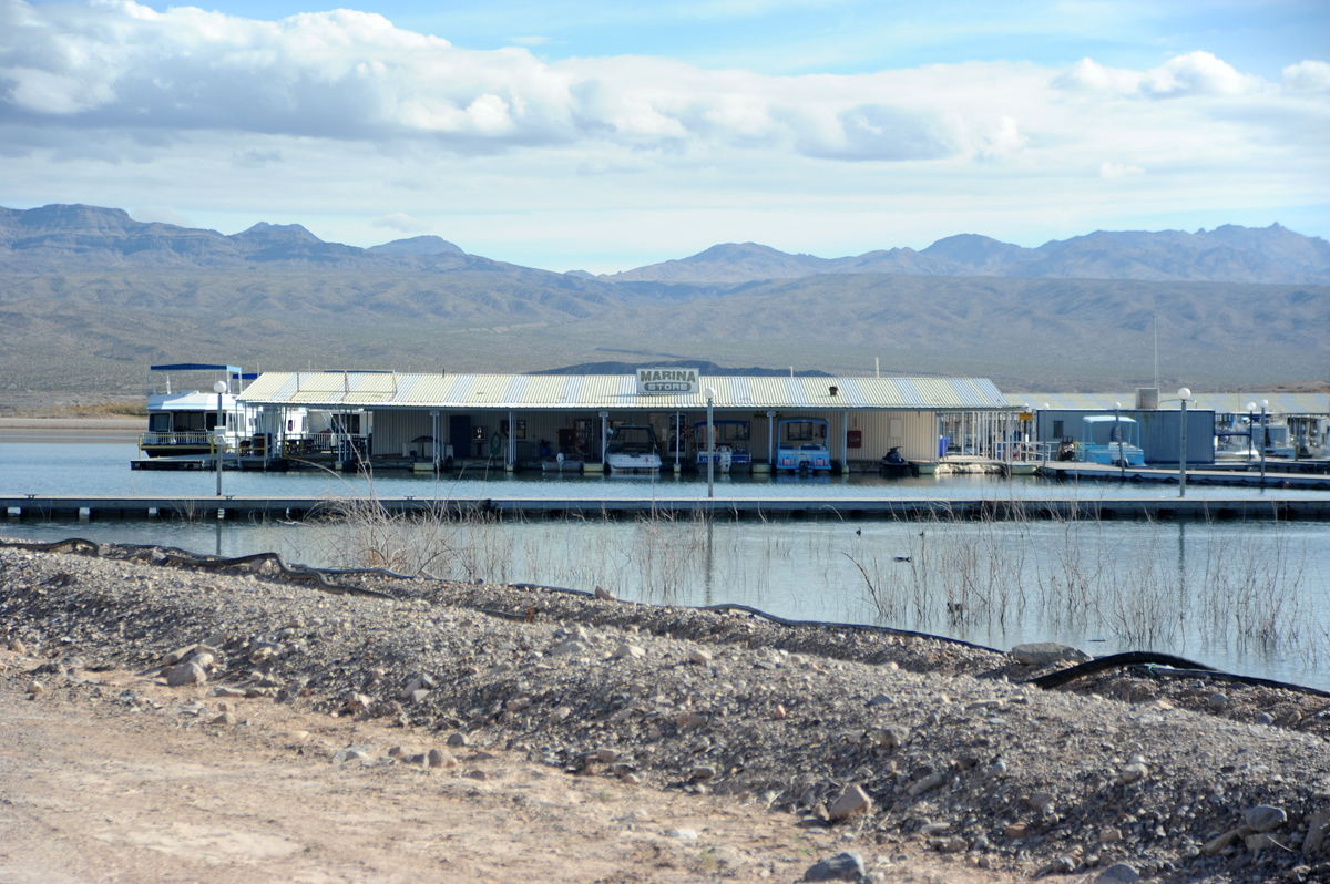 Photos taken of the facilities 12-3-2012